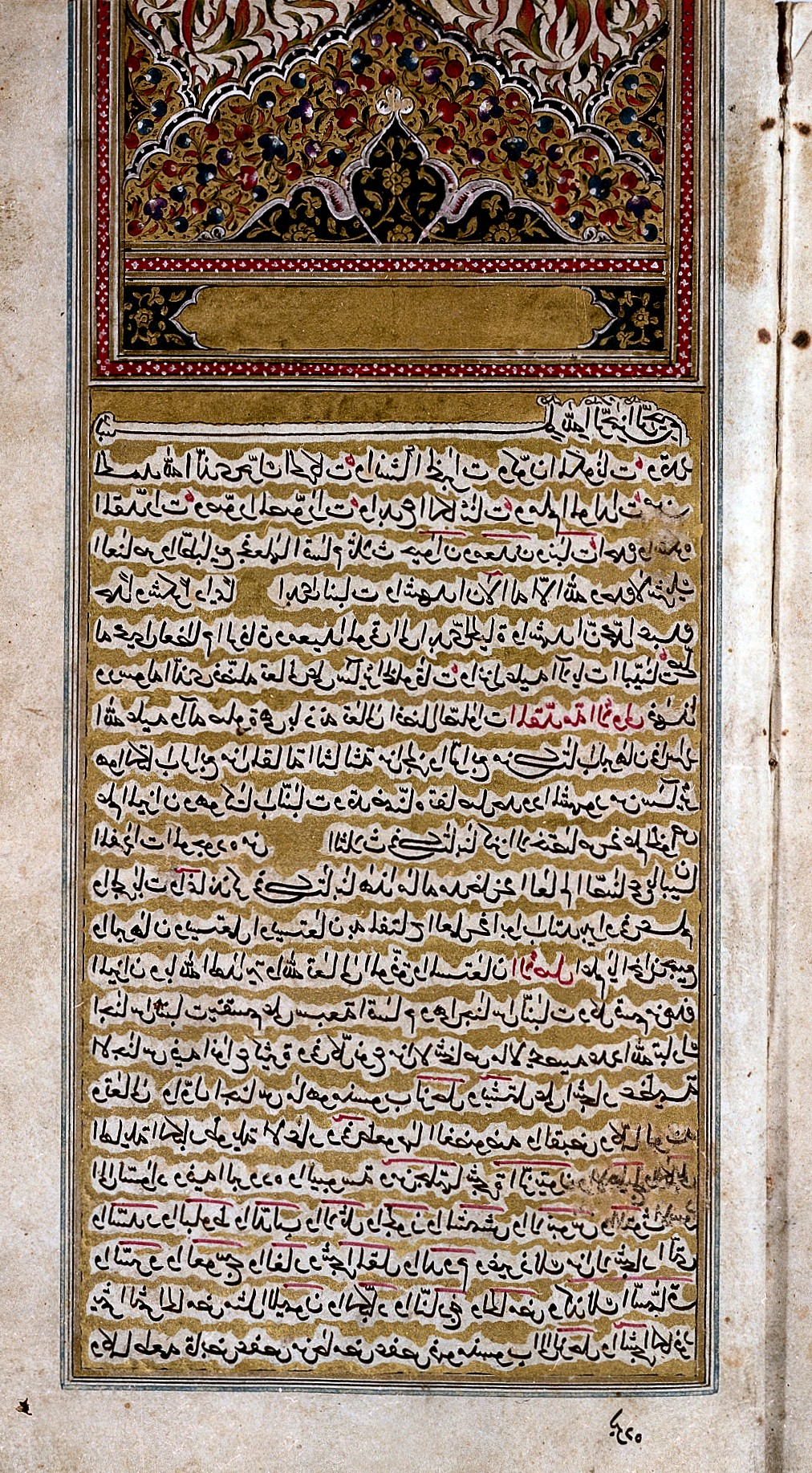 Al-Jildaki, Demonstration of secrets of the science of the balance. Asian Collection Keywords: manuscripts: wellcome or. 29a; oriental manuscripts; wellcome or. 29a